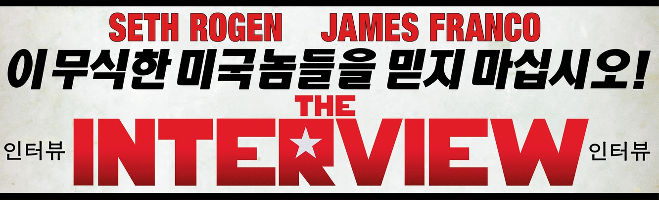 Official logo of The Interview movie